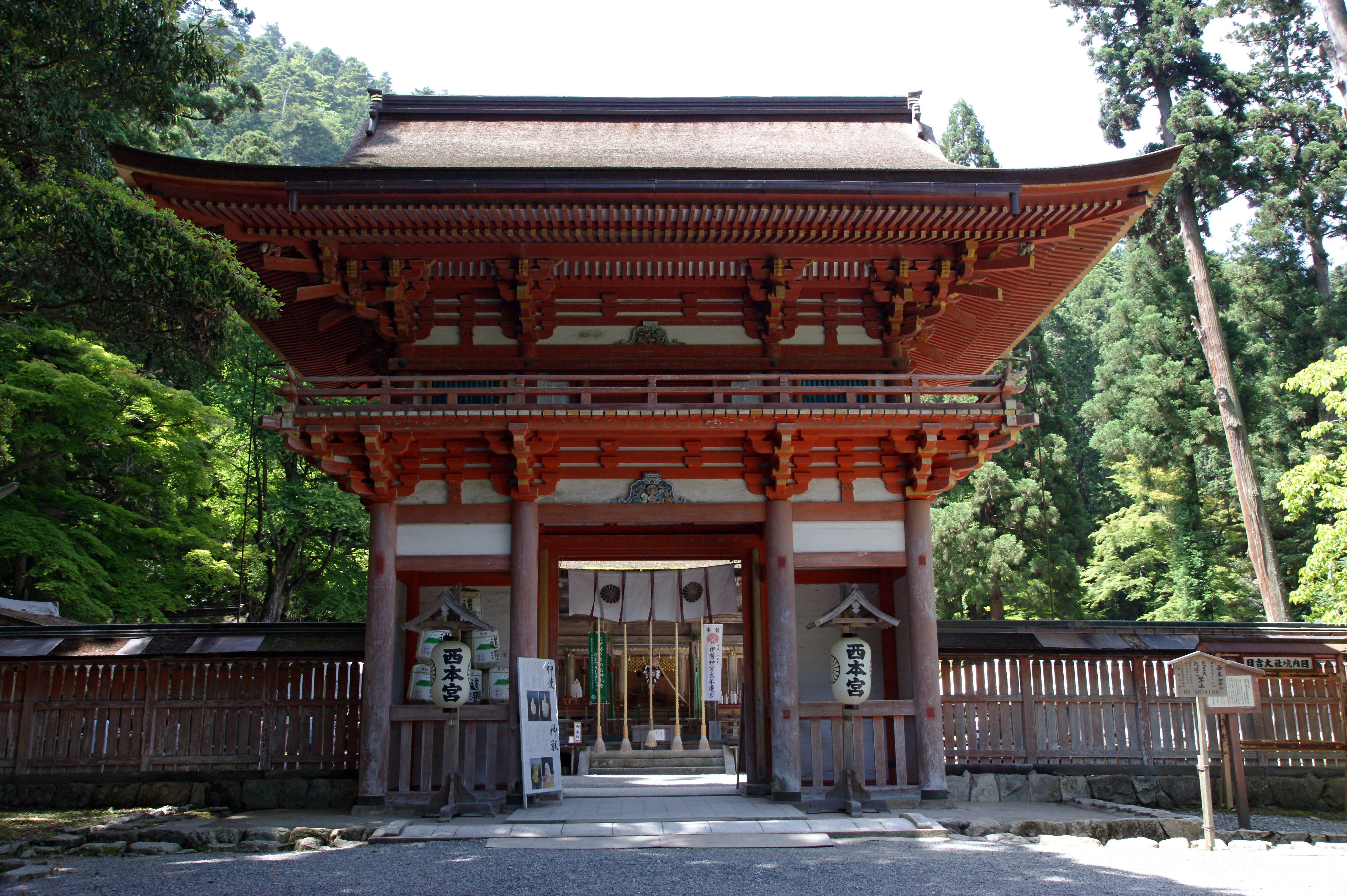 Hiyoshi Taisha in Otsu, Shiga prefecture, Japan